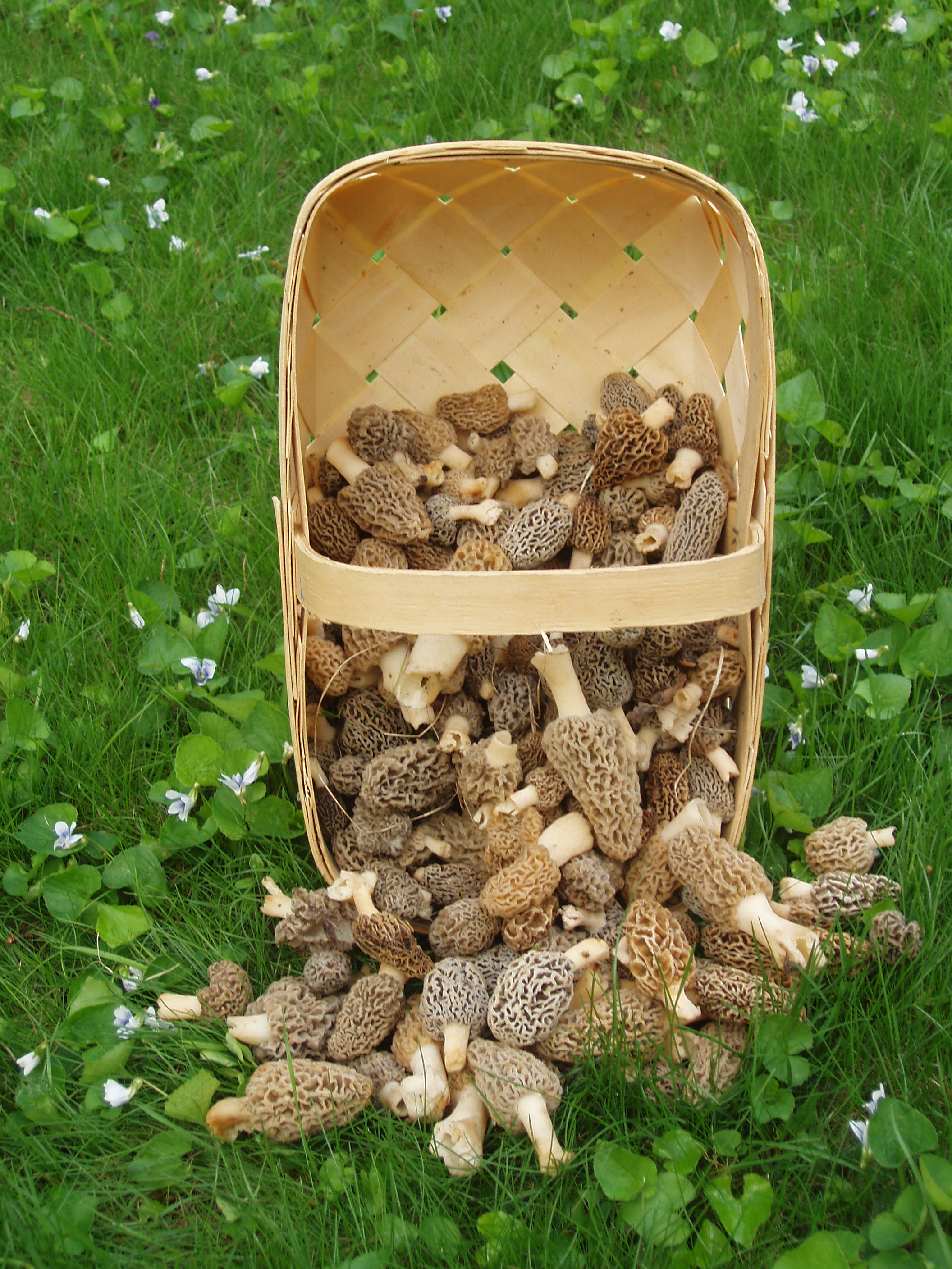 Mushroom Magic Meal